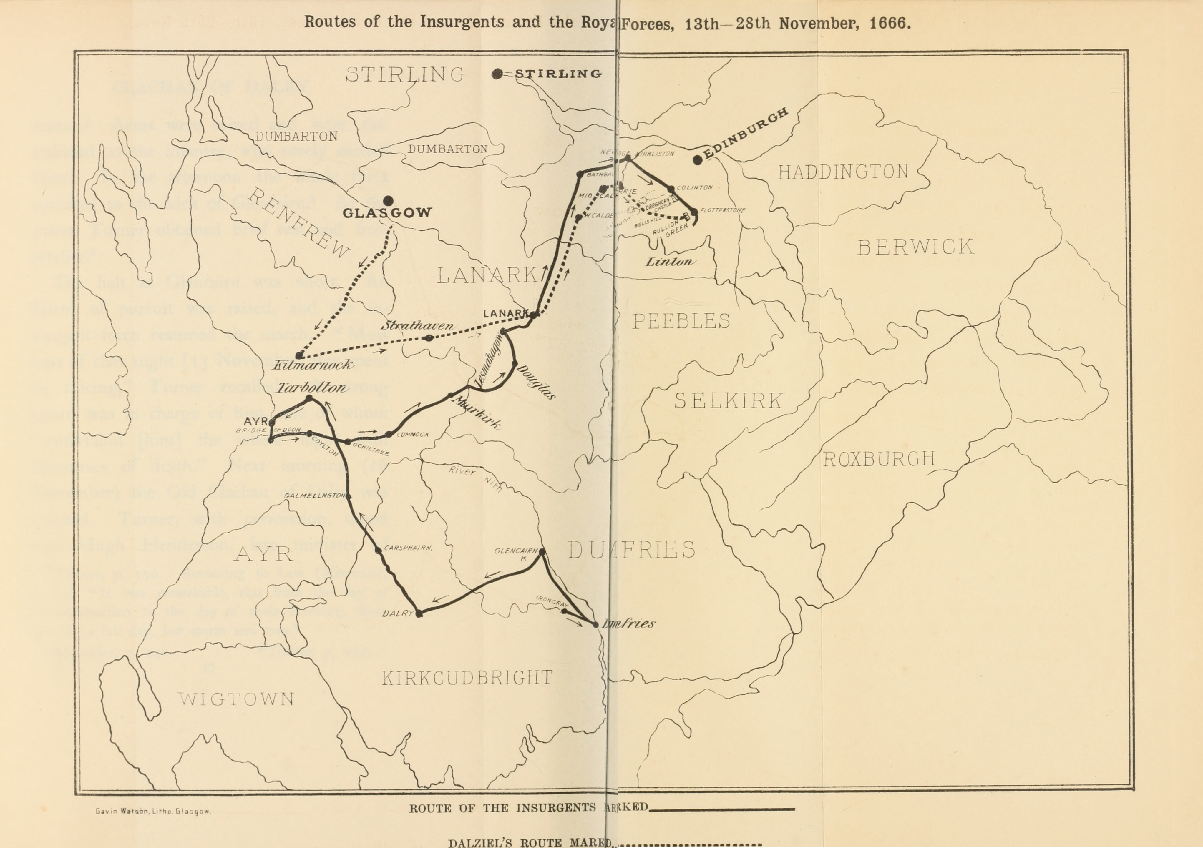 map of Pentland Rising from Terry